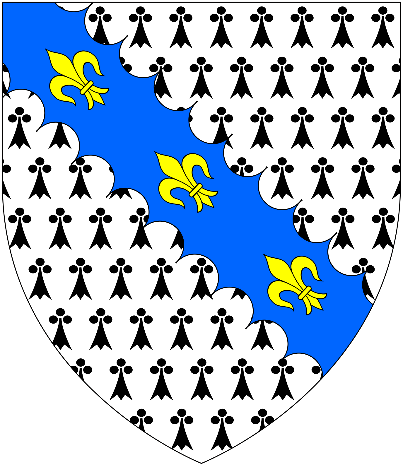 Arms of Bury of Colleton in the parish of Chulmleigh, Devon: Ermine, on a bend engrailed azure three fleurs-de-lys or